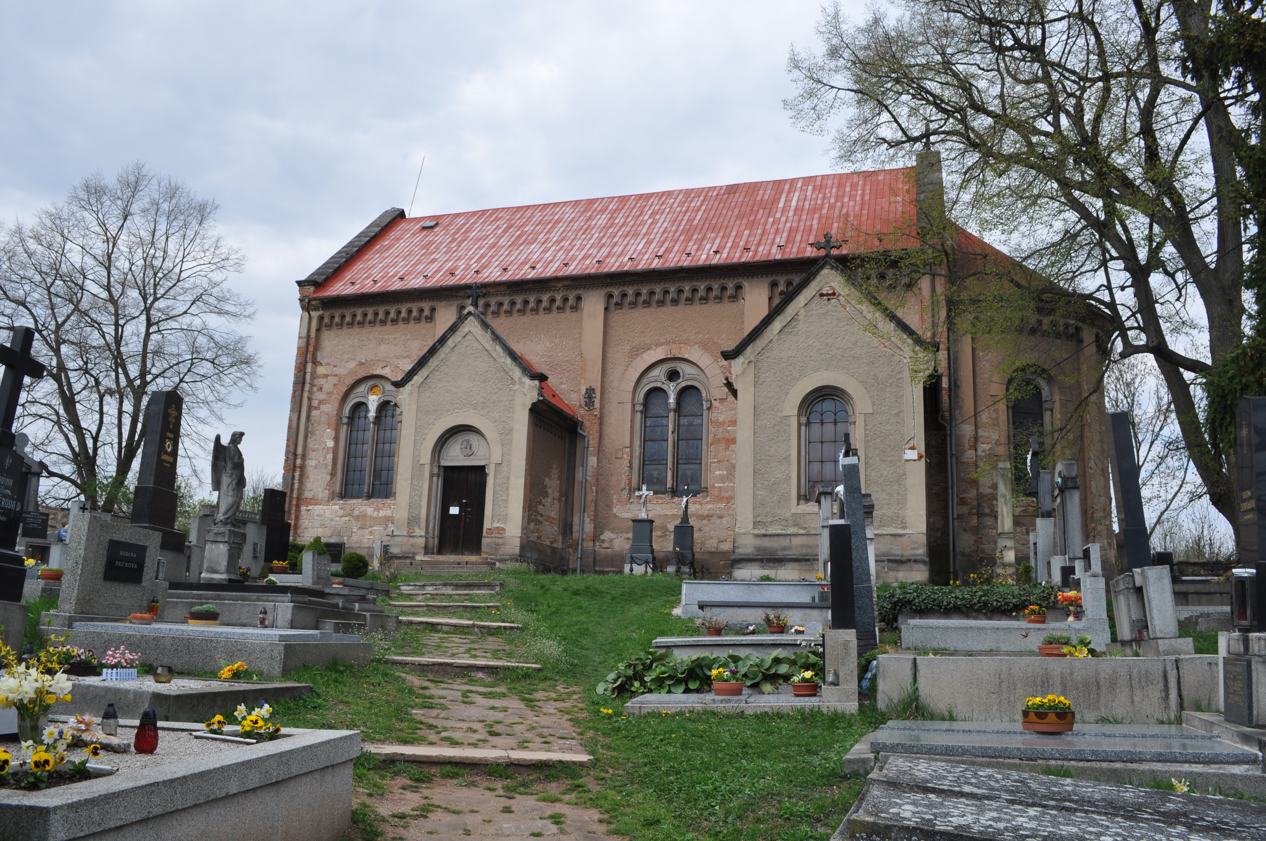 Kvílice, st. Vitus church